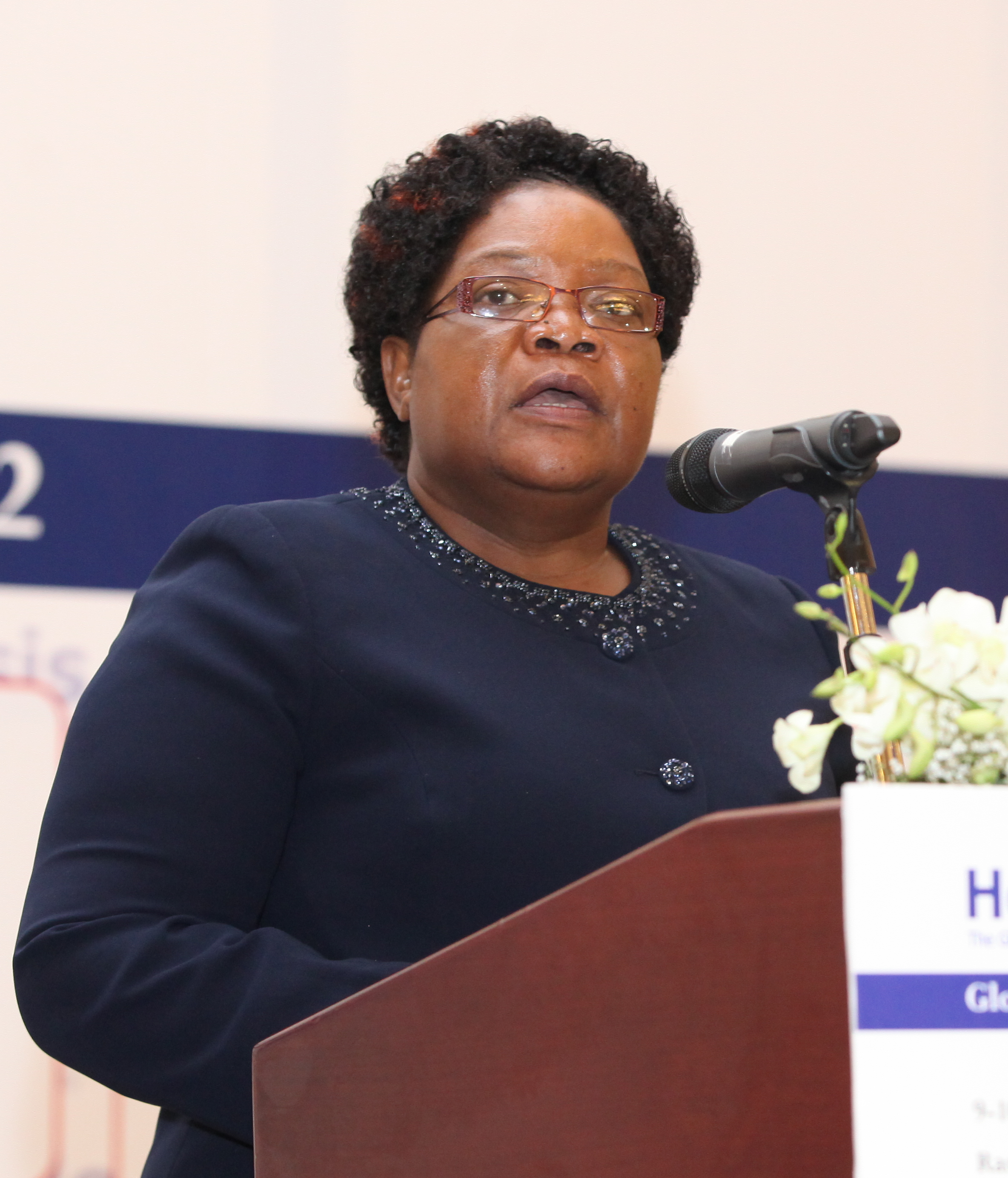 Hon J.T.R. Mujuru, Vice President of Zimbabwe, at the 2012 Horasis Global Arab Business Meeting